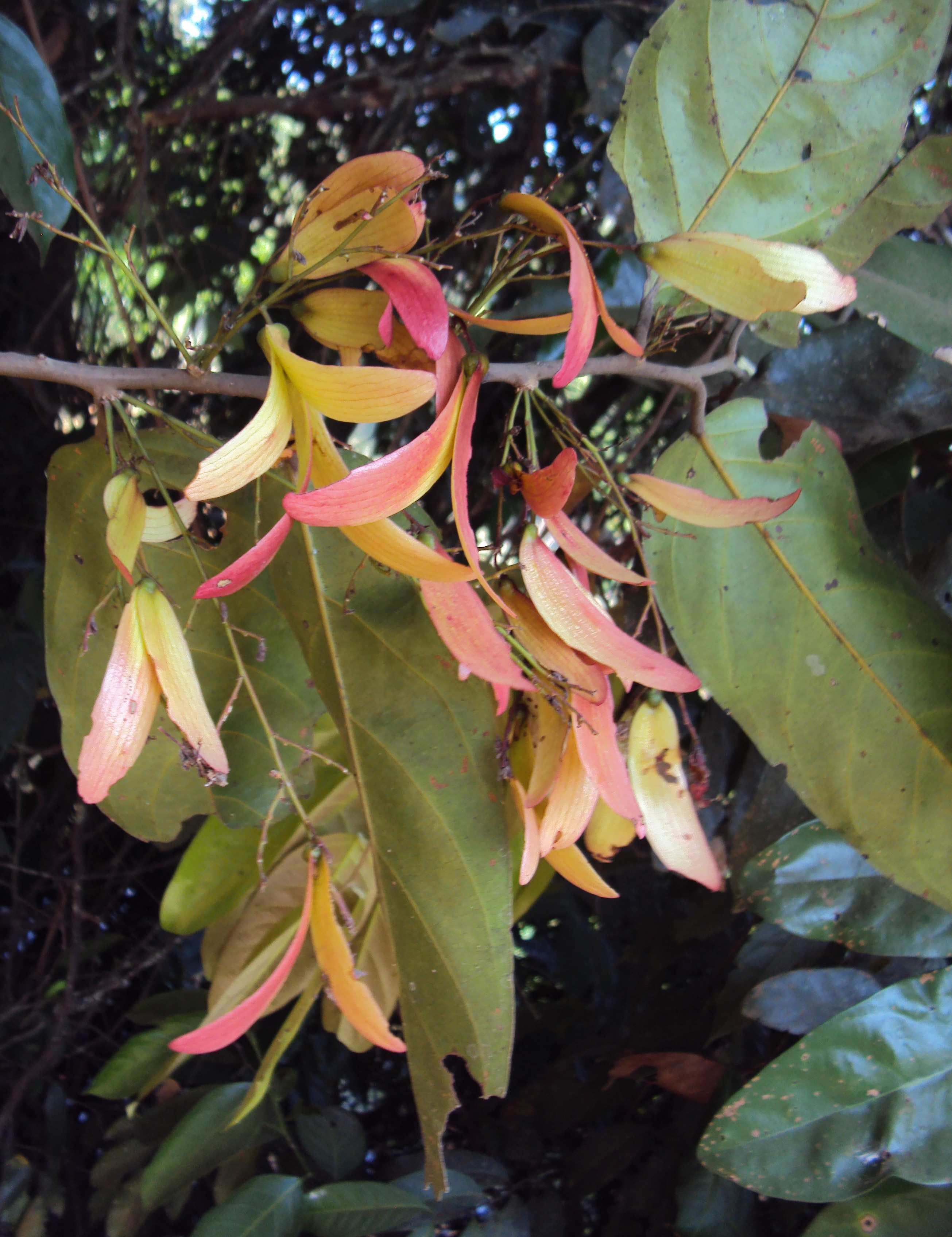 Hopea Ponga